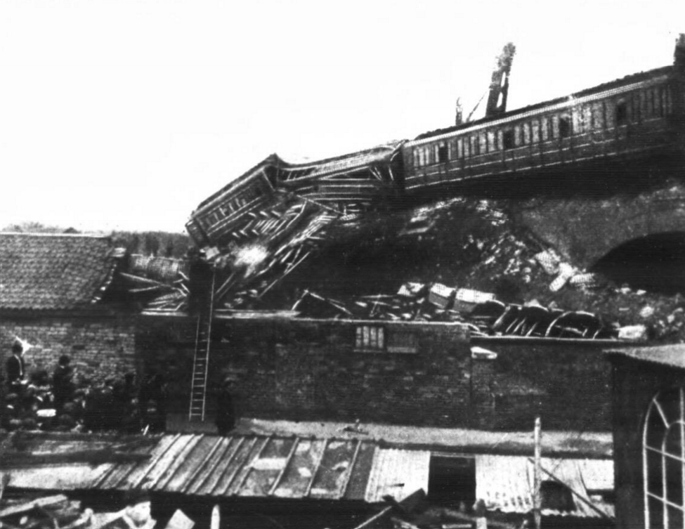 The wreck of the Scotch Express: Where part of the train went over the embankment.